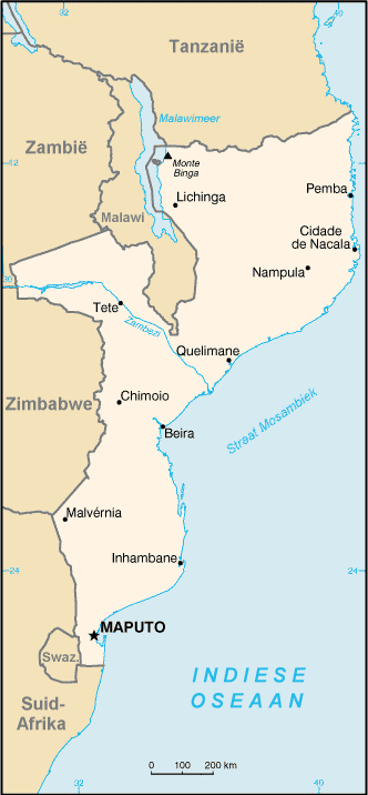 An Afrikaans map of Mozambique.